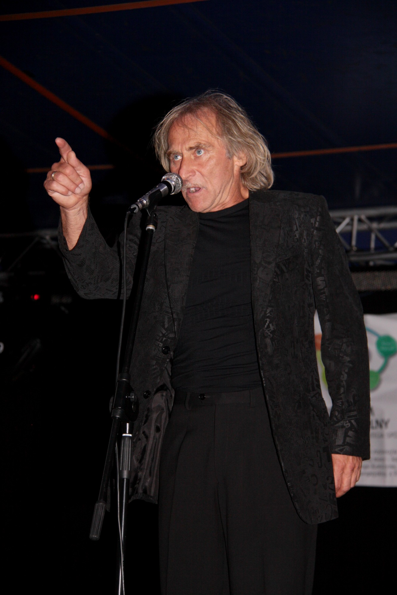 Jerzy Kryszak - polish actor, satirist and parodist.